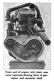 Sleeve-valve engine of the Handley-Knight automobile, front view. The engine was built for H-K by Willys-Overland. Cast en bloc, removable cylinder head, bore and stroke 4⅛ × 4½ in; volume 240,6 c.i. 54 bhp, N.A.C.C. rating 27.23 HP.